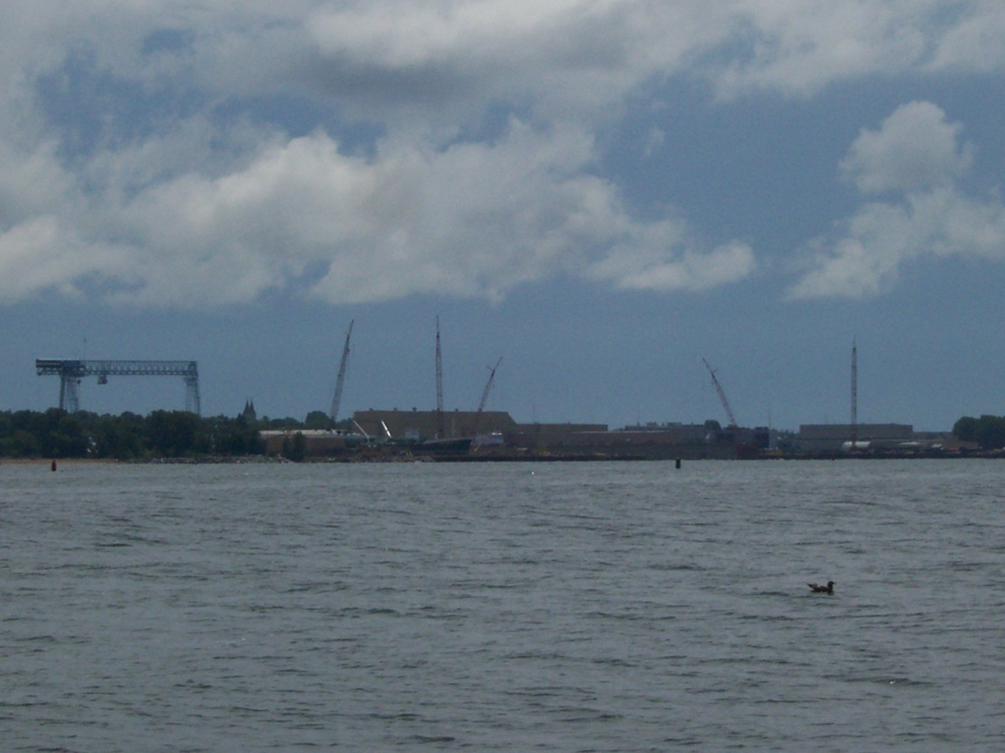 Looking southeast at the skyline for Sturgeon Bay, Wisconsin from Potawatomi State Park. (Cropped to Bay Shipyard)